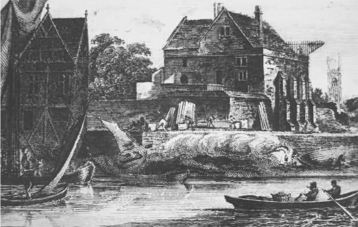 A depiction of Gloucester Castle and Gaol in the 18th century, based on a 1819 work (nfi)